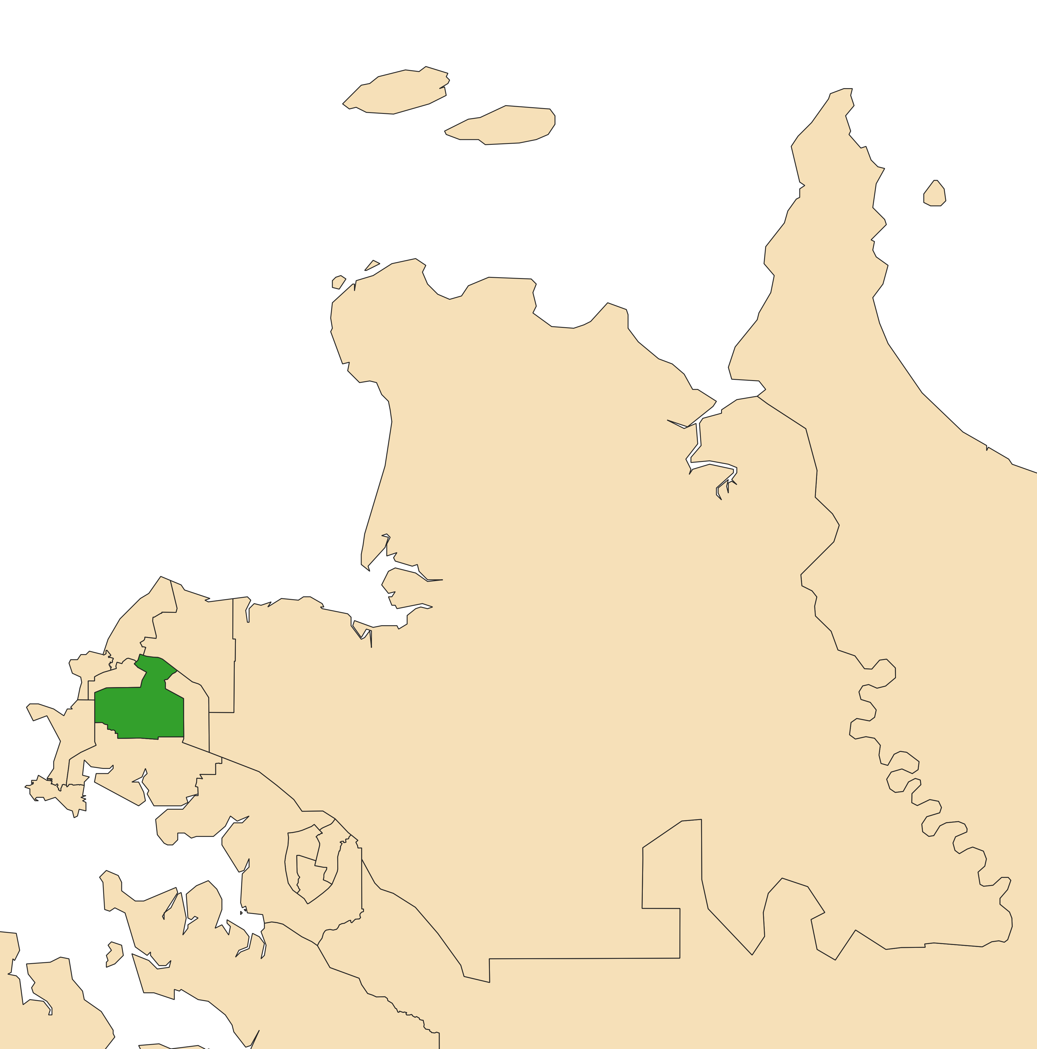 Location of the electoral division of Sanderson (dark green) in the Darwin/Palmerston area of the Northern Territory at the 2020 Northern Territory election